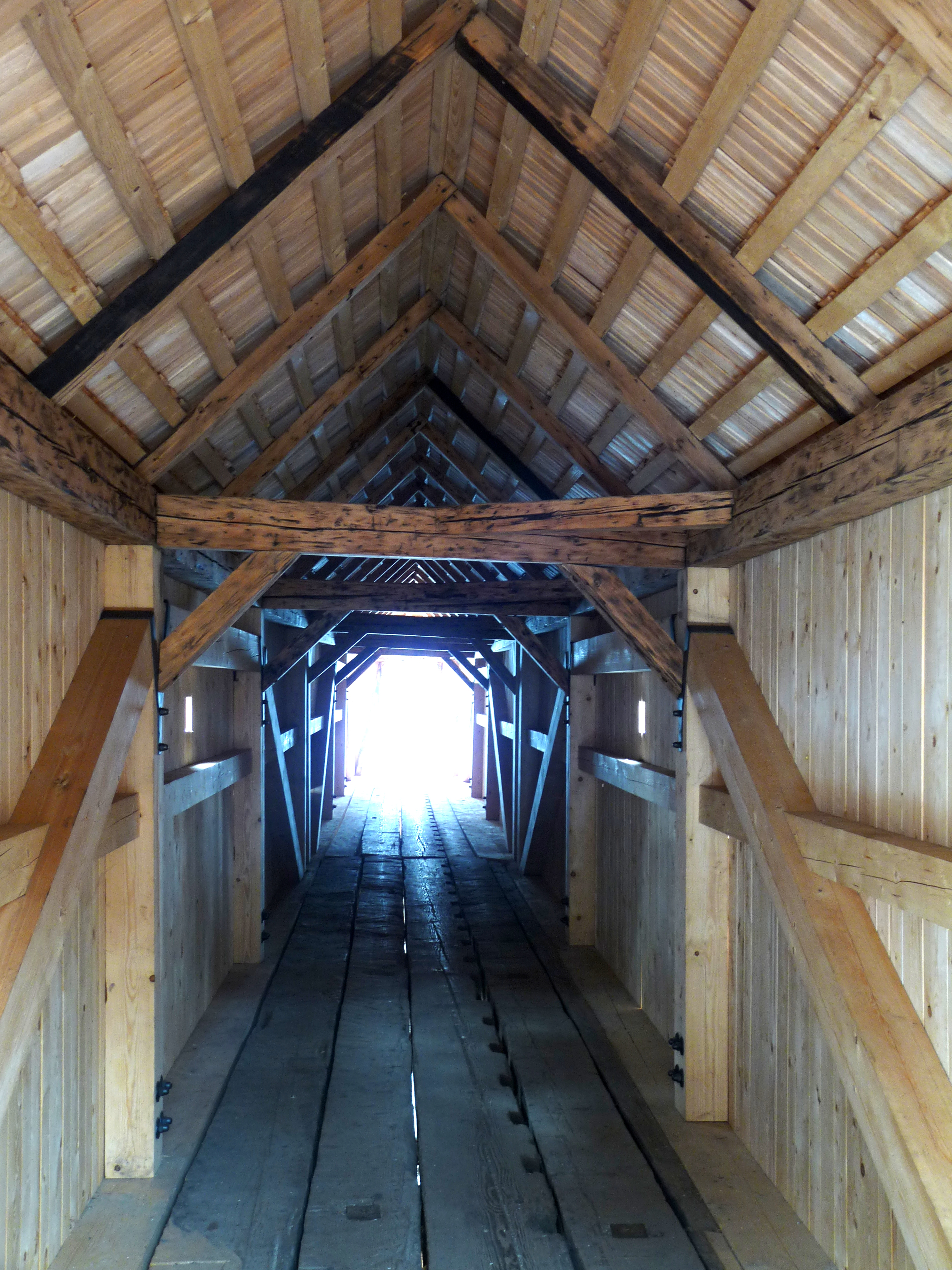 Bridge over the Teplá Vltava River in the village of Lenora, Prachatice District, South Bohemian Region, Czech Republic.